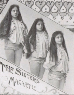 The trapeze and strongwoman act the Sisters Macarte cropped from The Sporting & Theatrical Journal (1897)